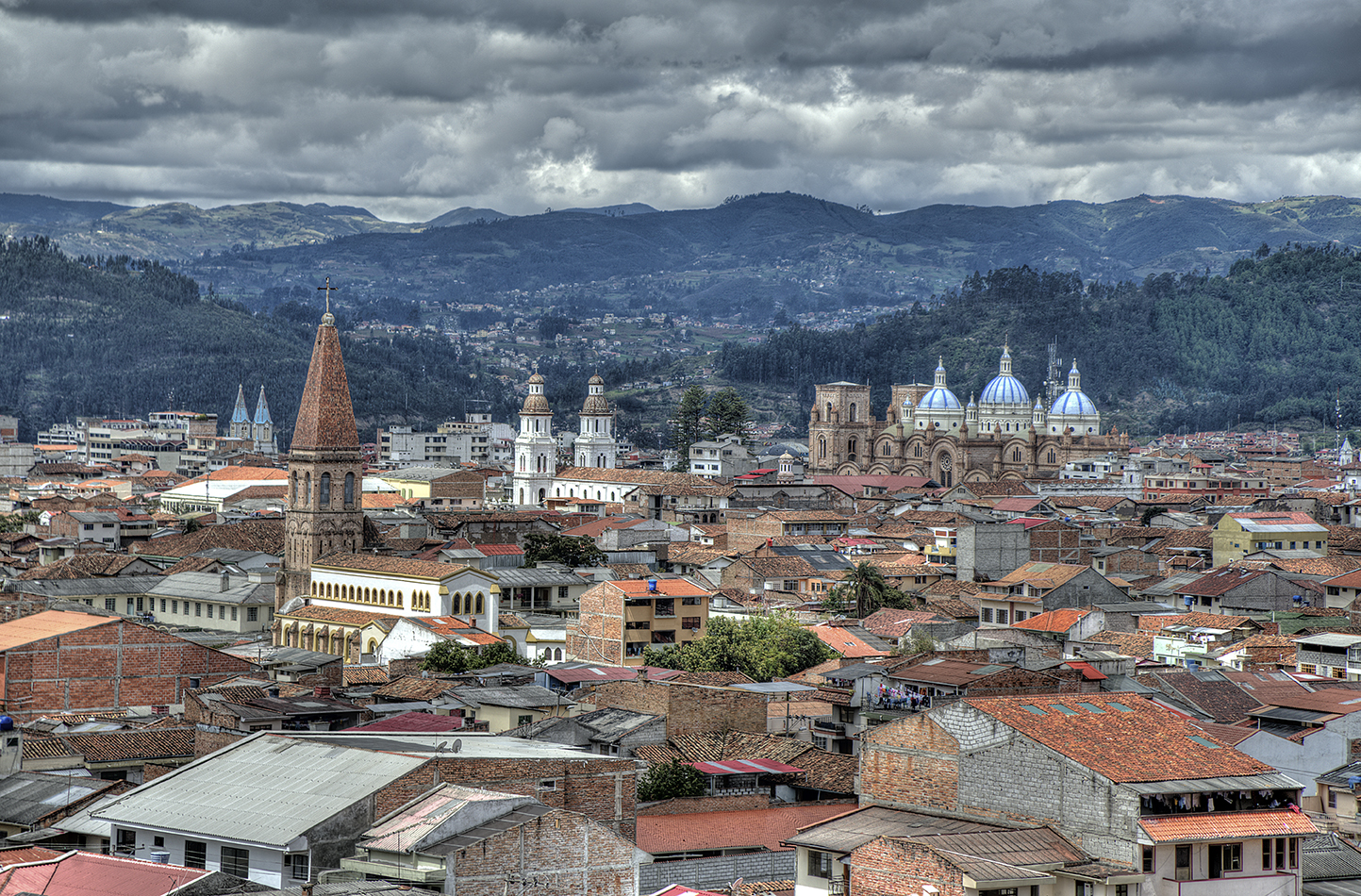 AR PN ANDES15 CUENCA TV 022